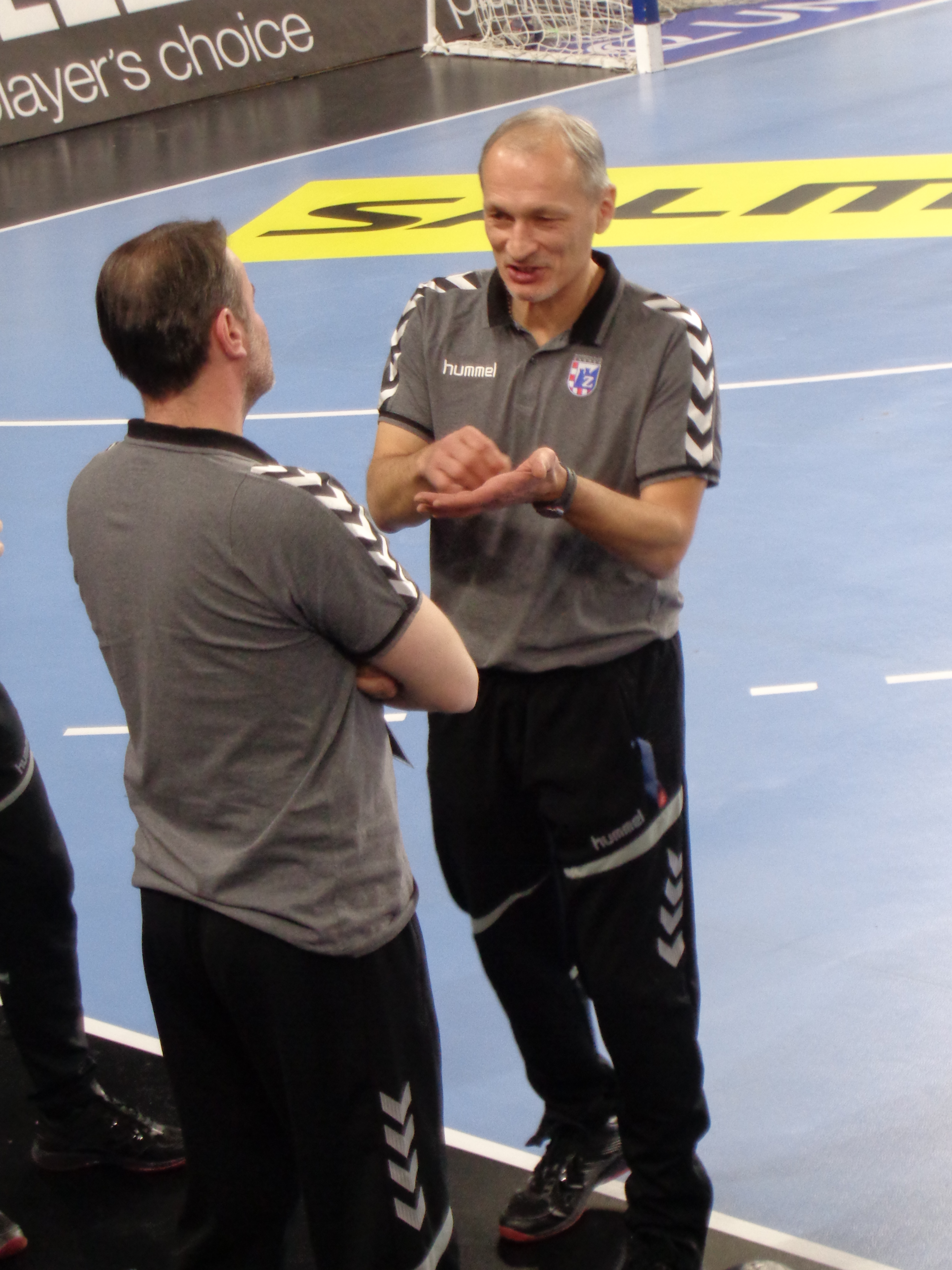 Vladimir Jelčić (born 1968), Croatian handball trainer and retired former player, during the match PPD Zagreb - Tauron Vive Kielce in Varaždin Sportshall, Croatia, on 16th November 2016.